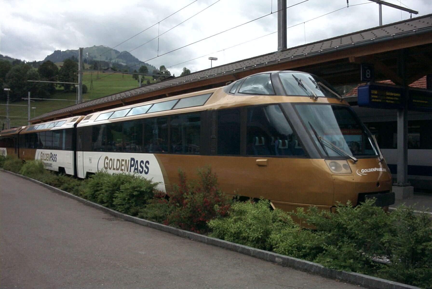 MOB panoramic driving trailer Arst 152 in golden GoldenPass livery in Zweisimmen station